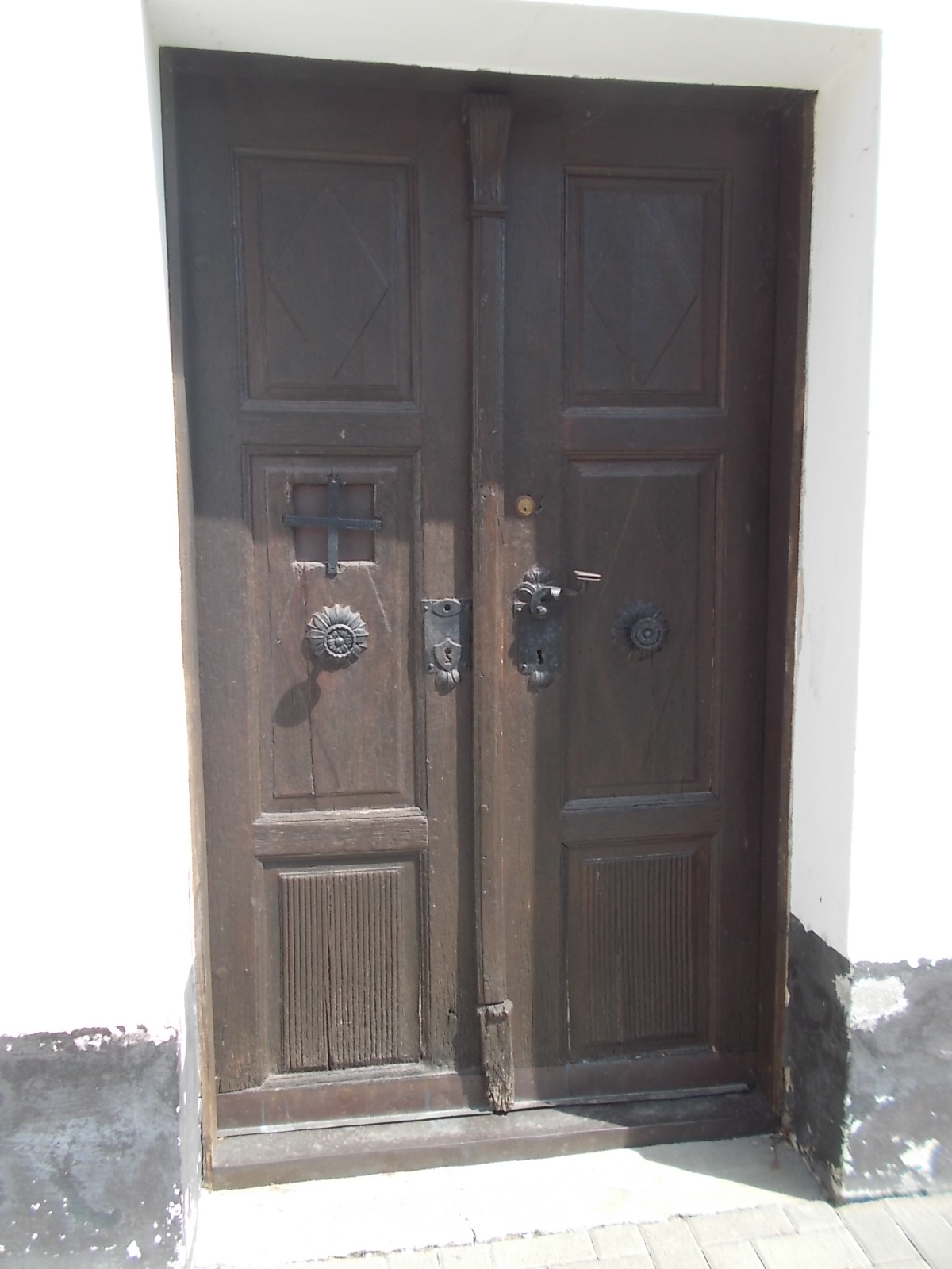 Saint Roch and Sebastian chapel built by Dávid Pummerschein, renovated around 1820-1830. From 1830 it was the burial place of the Vigyázó family. - Rókus street Paks, Tolna County, Hungary.